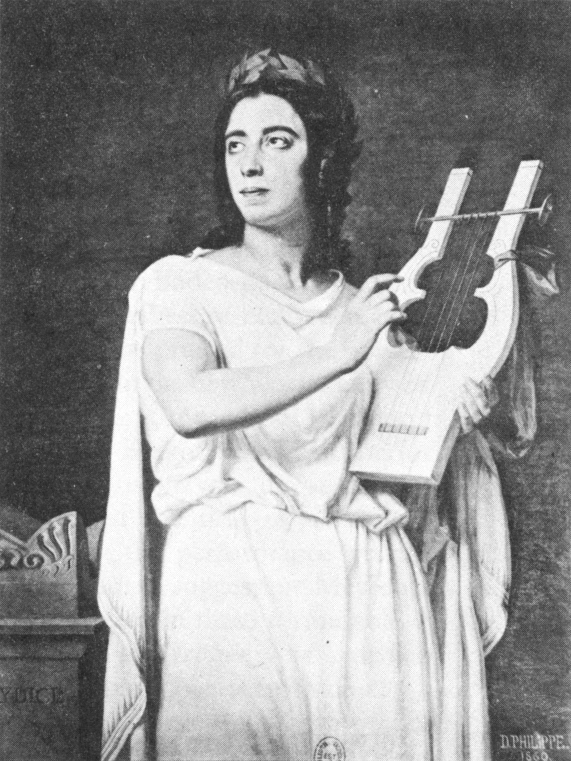 The French mezzo-soprano Pauline Viardot in the title role of Gluck's Orphée.